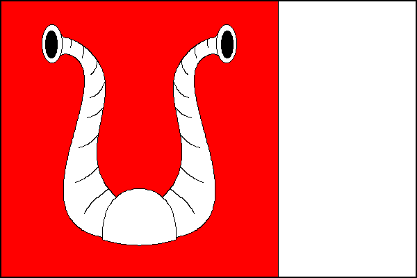 Municipal flag of Zruč nad Sázavou town, Kutná Hora District, Czech Republic.